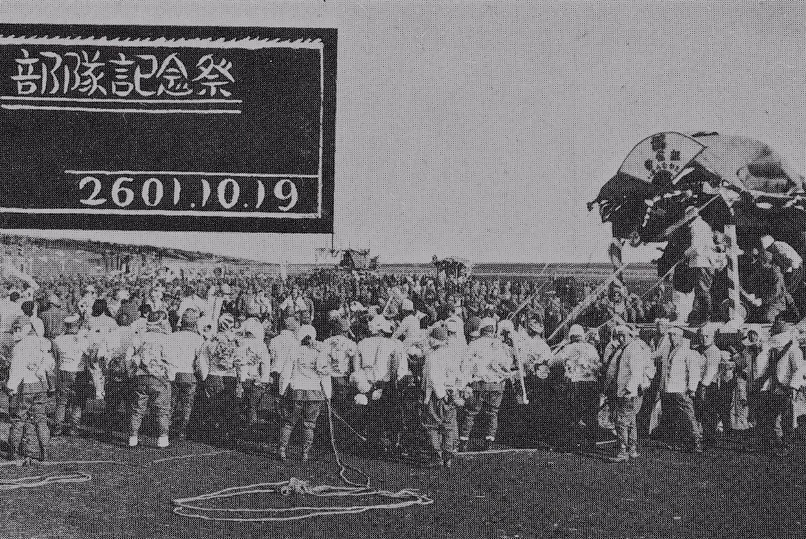 Troop Festival of the 2nd Regiment